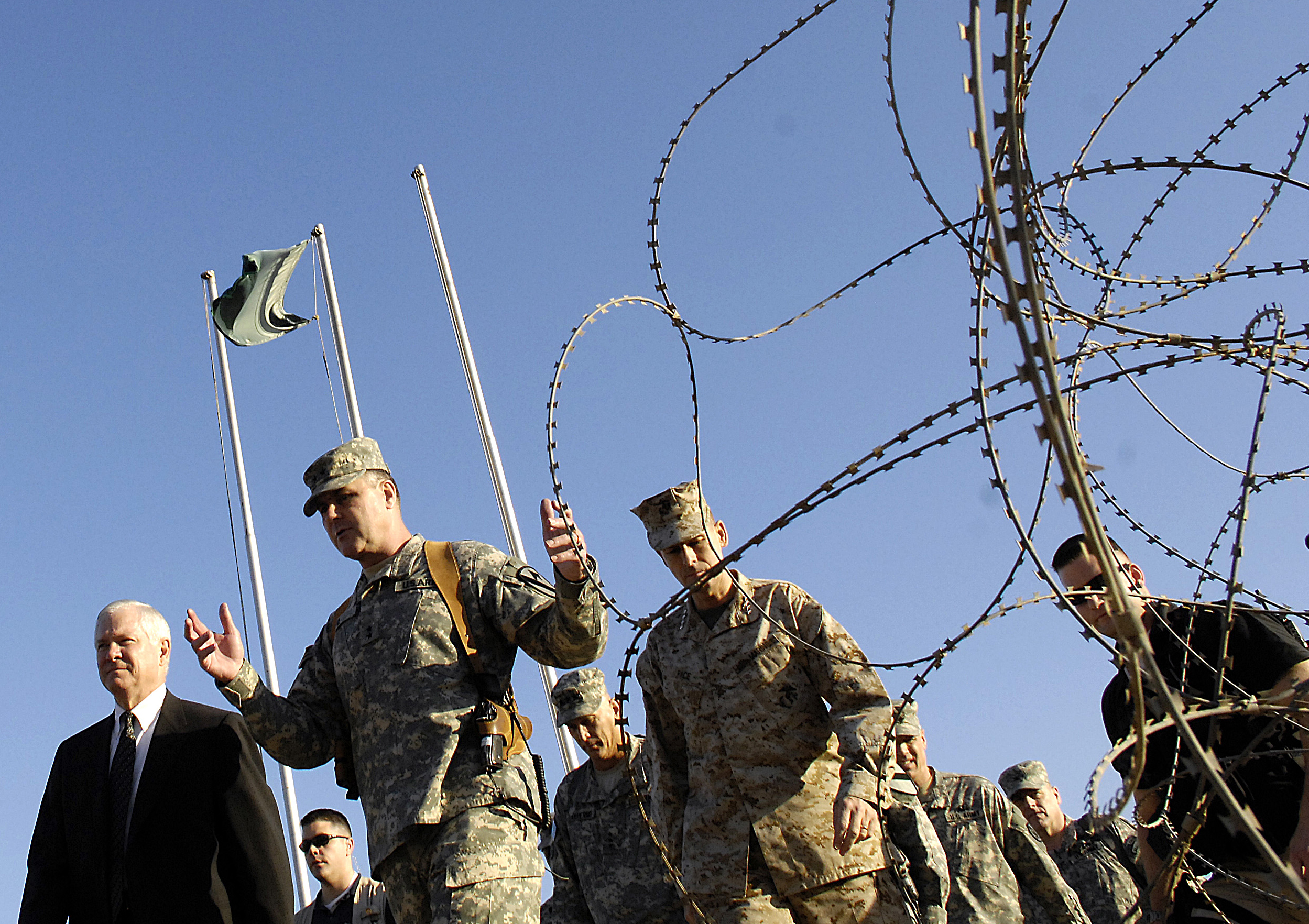 Defense Secretary Robert Gates, left, is escorted by Maj. Gen. Joe Fil, Multinational Division Baghdad, to a briefing at Camp Liberty, Iraq, Dec. 20, 2006. Defense Dept. photo by Cherie A. Thurlby